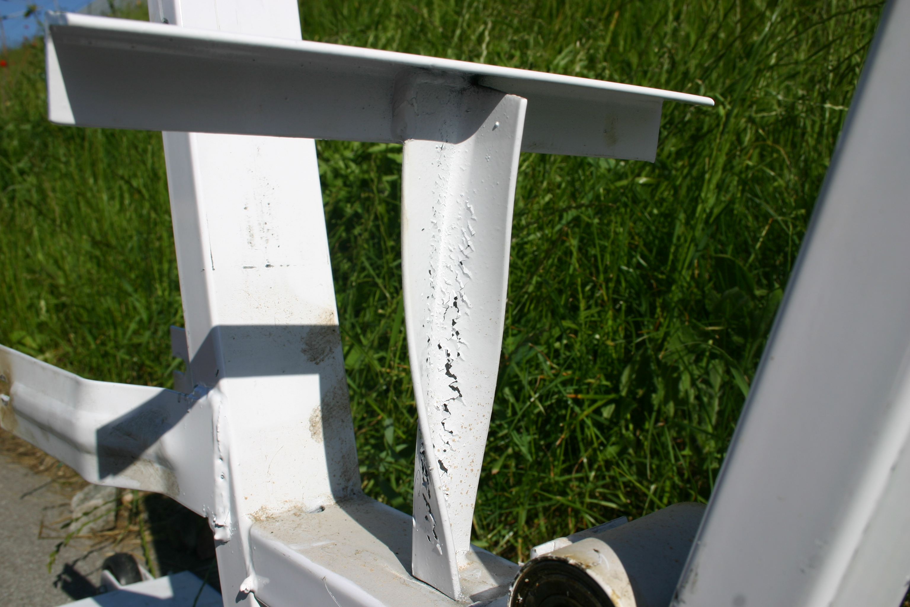 intentionally twisted (by 90°) steel (equal angle steel) showing permanent deformation